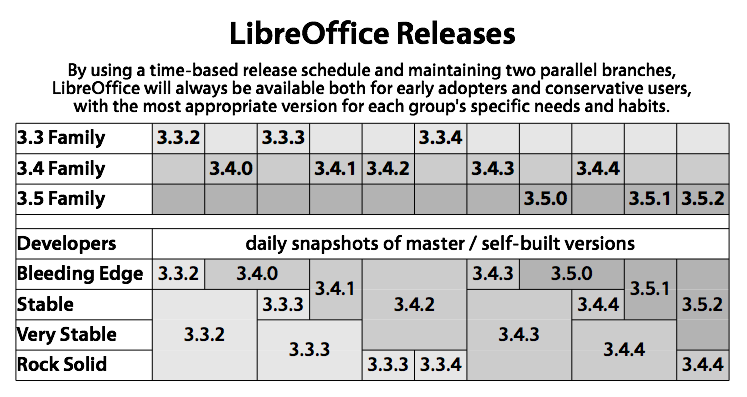 Table showing the release cadence of LibreOffice.